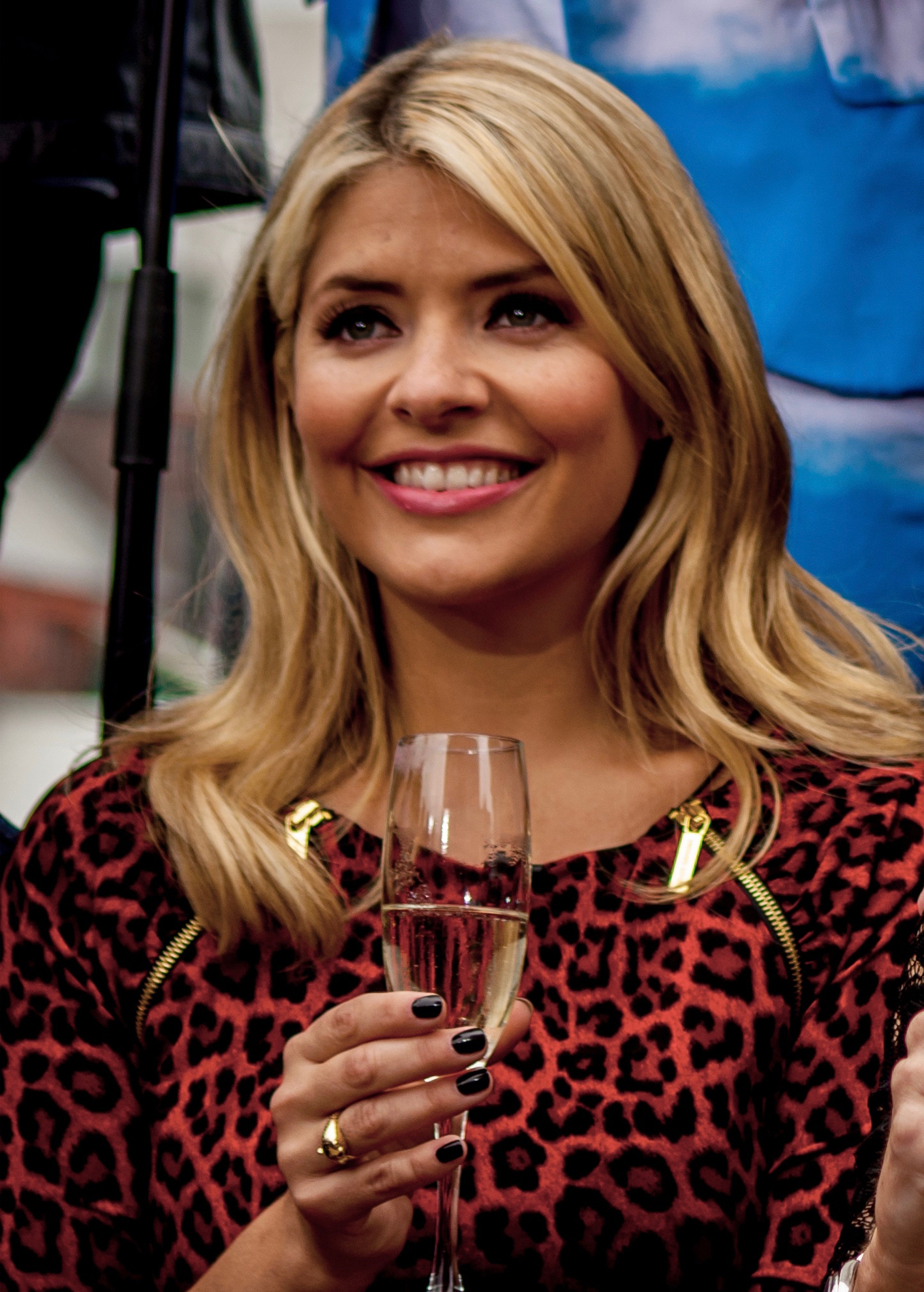 Television presenter Holly Willoughby in October 2013.